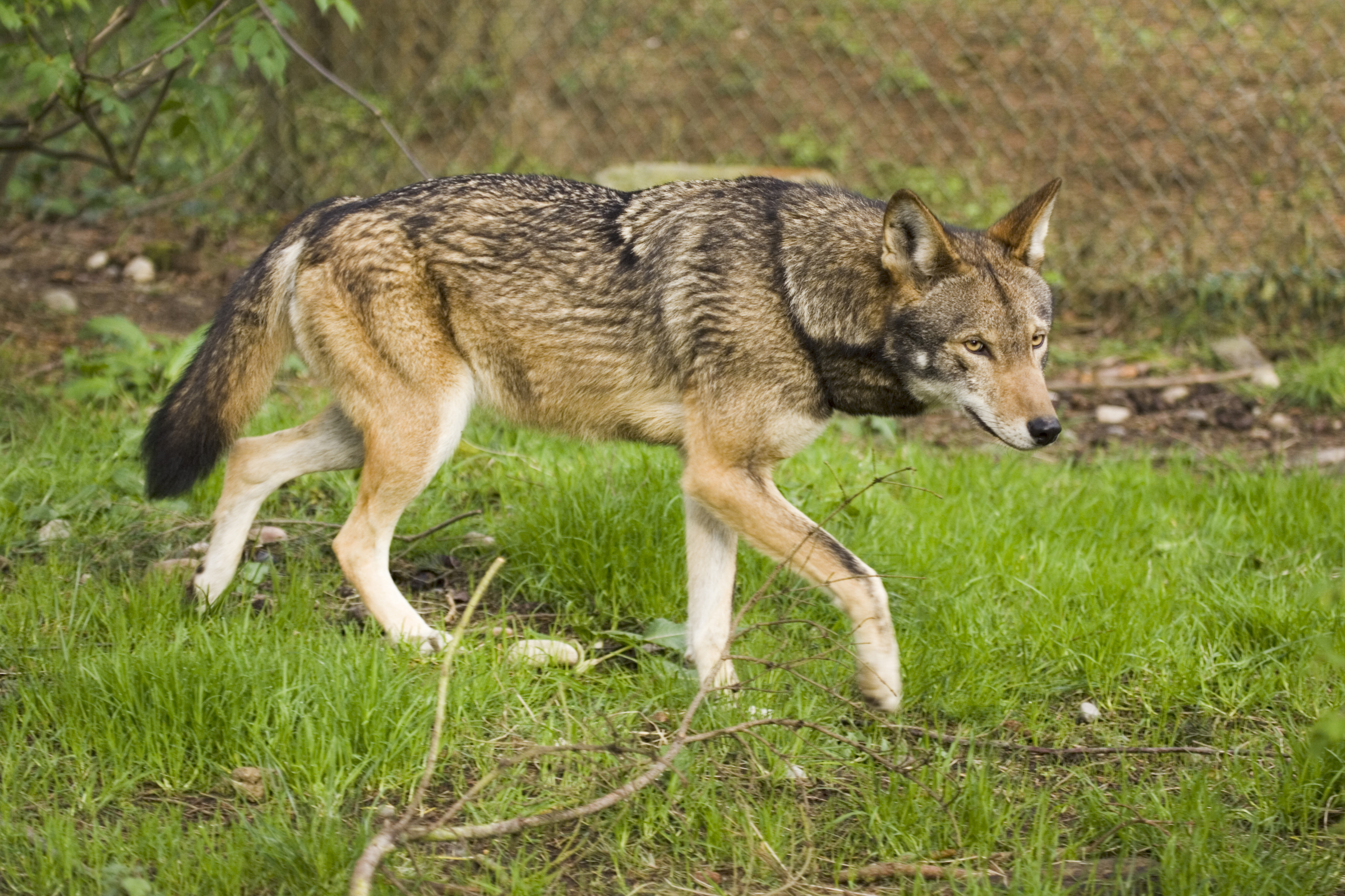 Photo credit: B. McPhee/USFWS